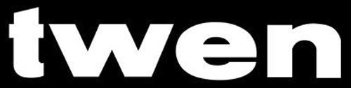 Masthead of twen, Magazine, Germany, 2000s.